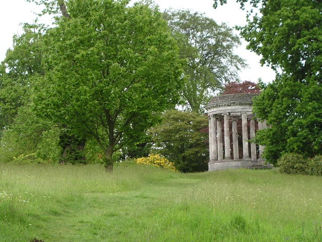 Ionic Rotunda in the grounds of Petworth House 18th-century folly by Matthew Brettingham. For more information see the National Trust website